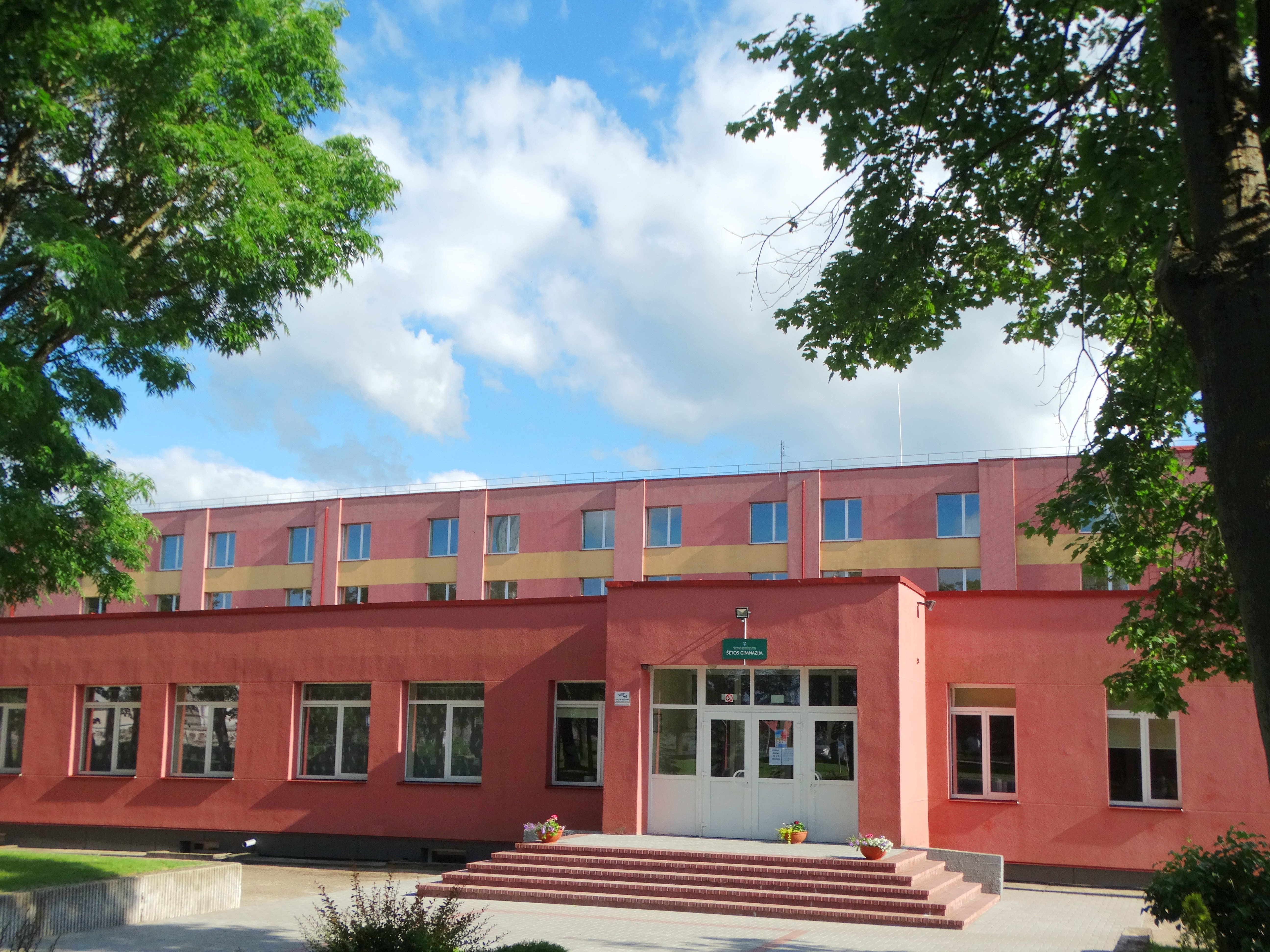 Šėta, gymnasium, Kėdainiai district, Lithuania